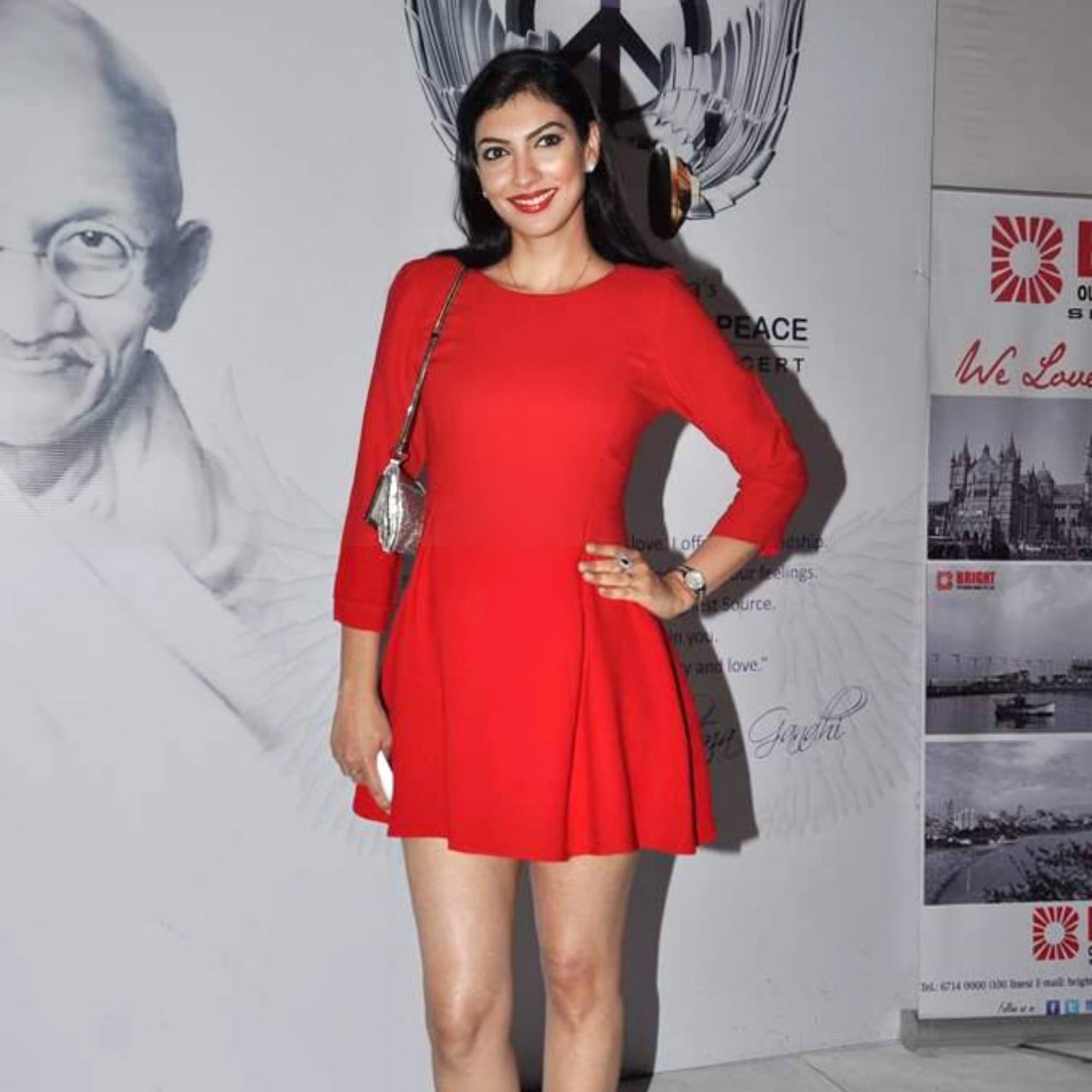 Yukta Mookhey at Global peace concert in Andheri Sports Complex, Mumbai.